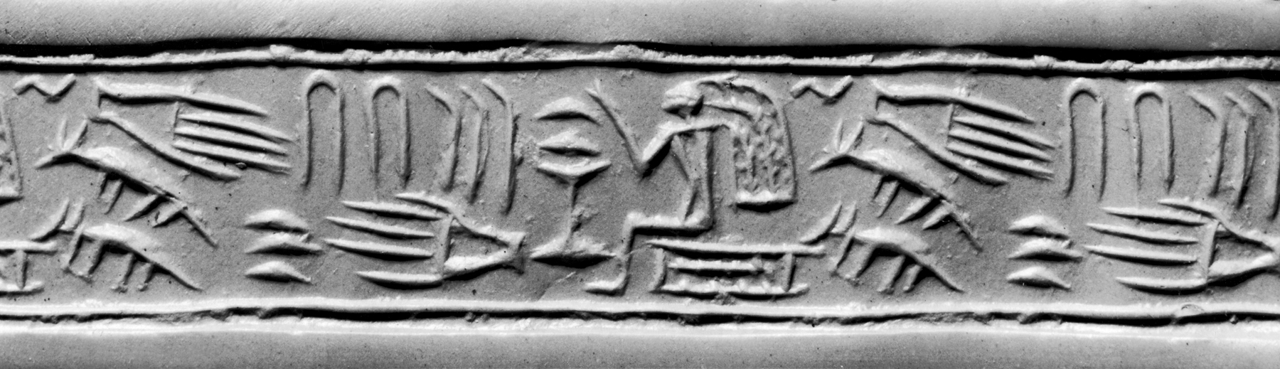 This cylinder seal is of the type placed in burials. It shows a woman seated before an offering table. The images surrounding her indicate her name in very early hieroglyphs, from before the language and writing system had been fully developed.